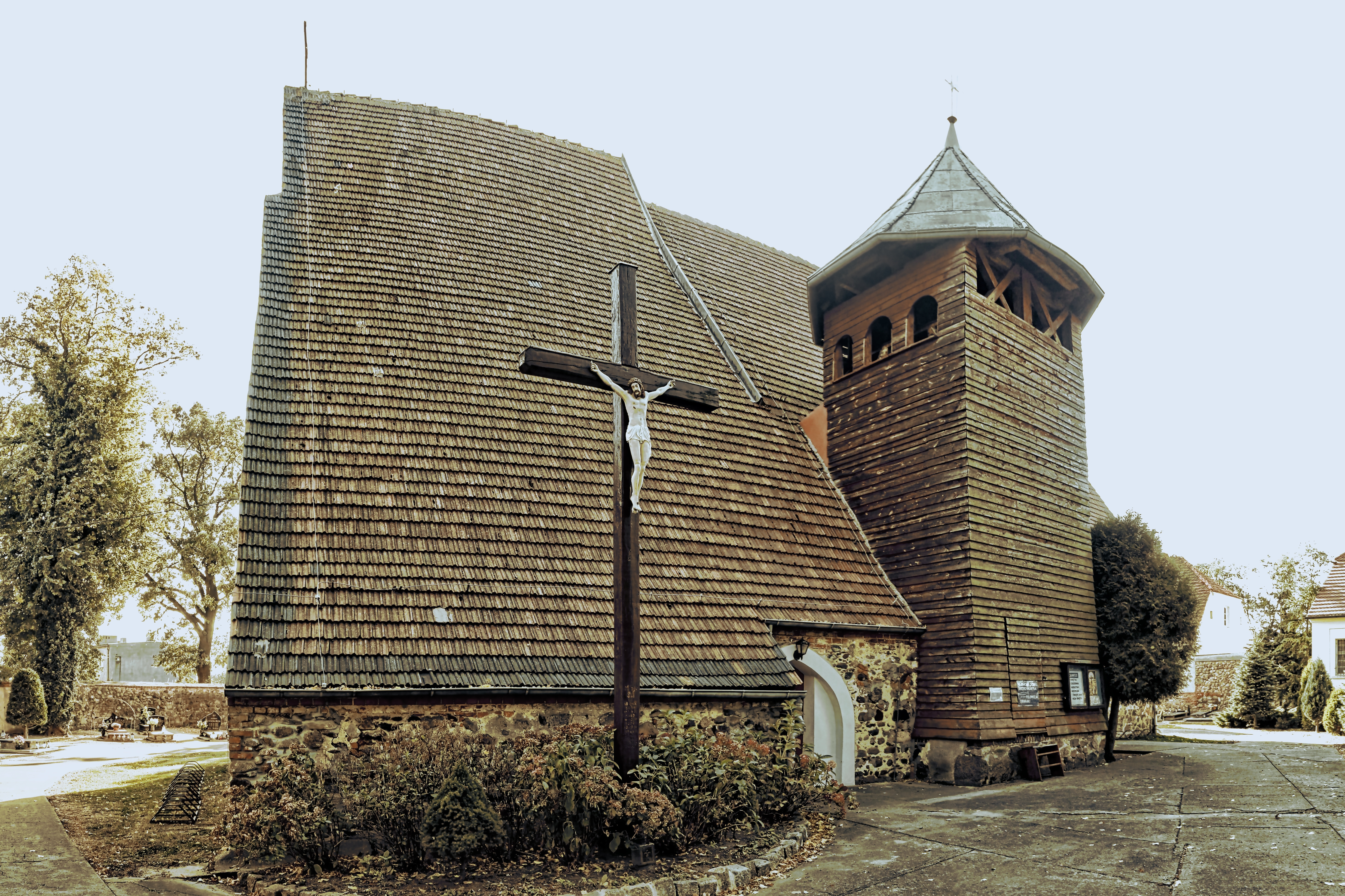 Osowa Sień, church